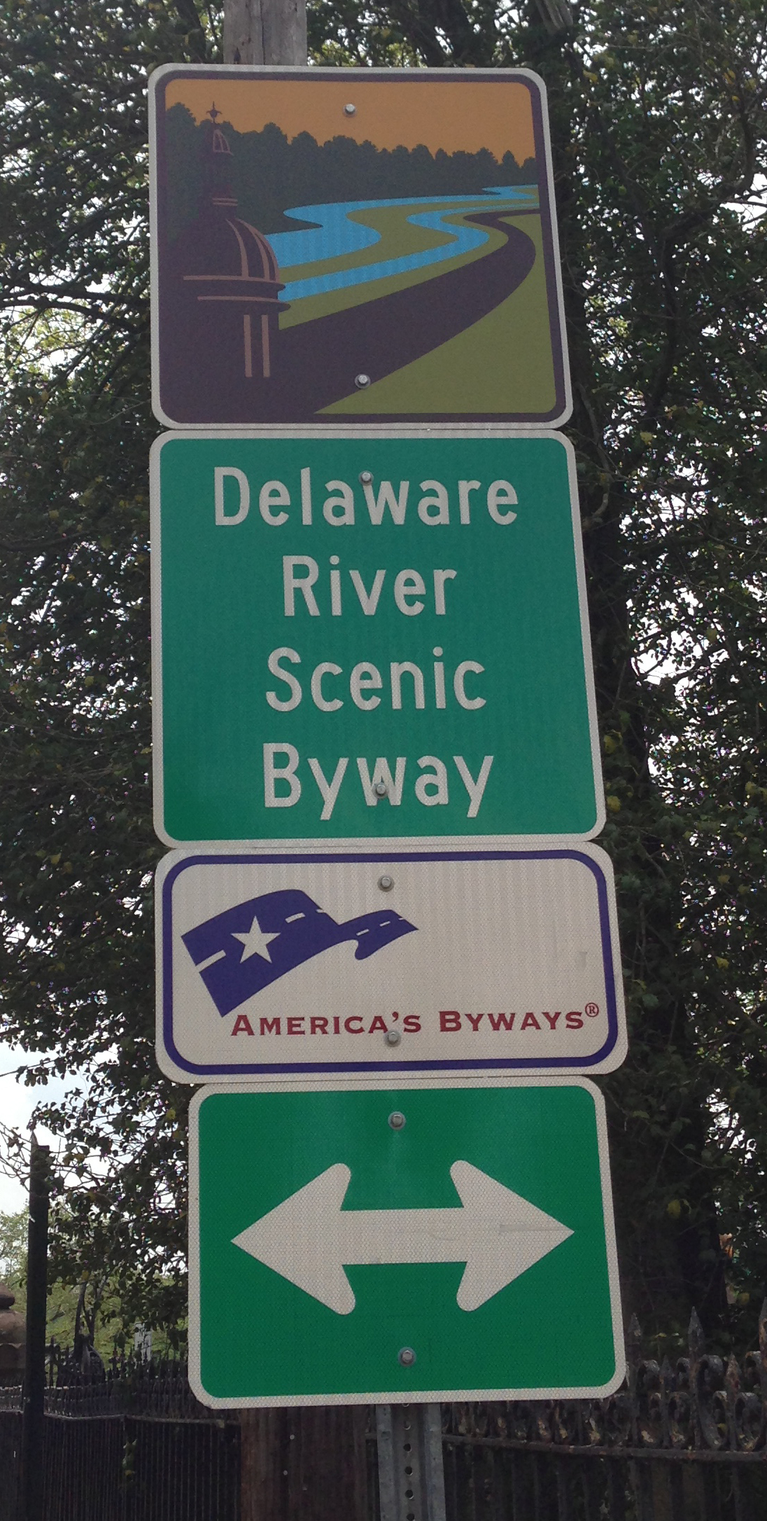 Delaware River Scenic Byway sign along New Jersey Route 175 at New Jersey Route 29 cropped